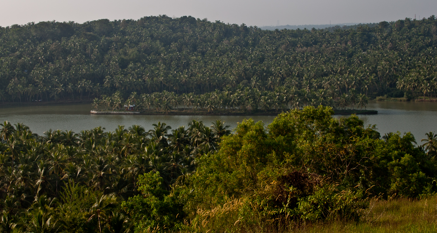 A beautiful green village in the south Indian state of Kerala.